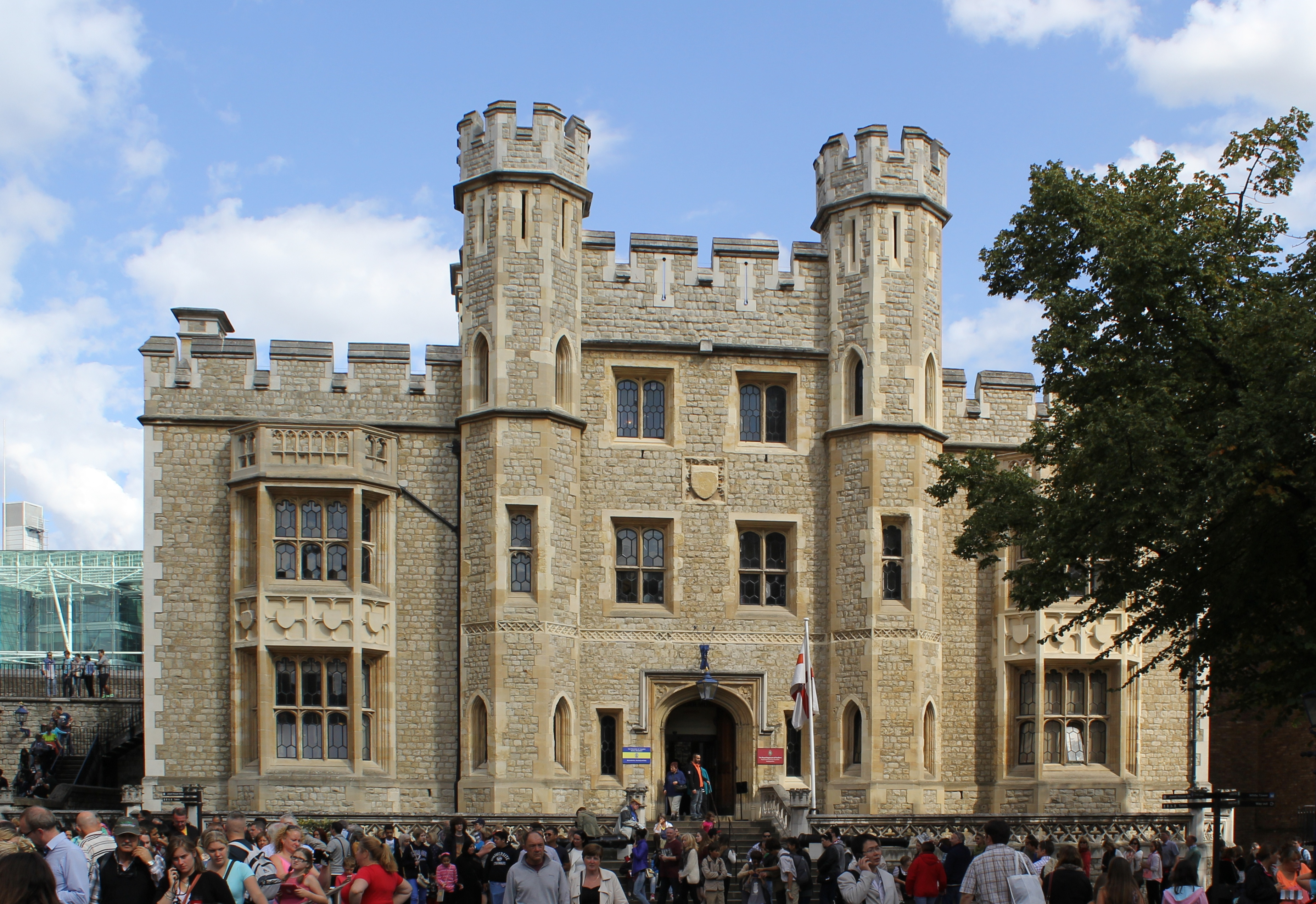 Tower of London Wikidata has entry Q17645576 with data related to this monument.